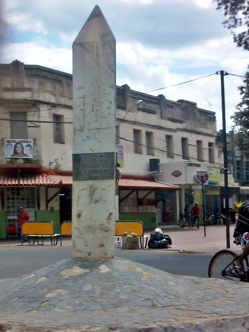 A monument in Conselheiro Pena, Minas Gerais, Brazil.